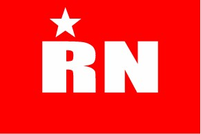 This is the flag of the :en:Fuerzas Armadas de la Resistencia Nacional|Fuerzas Armadas de la Resistencia Nacional which existed during the :en:El Salvador Civil War|El Salvador Civil War . Created by Oscar Lopez on February 6, 2007